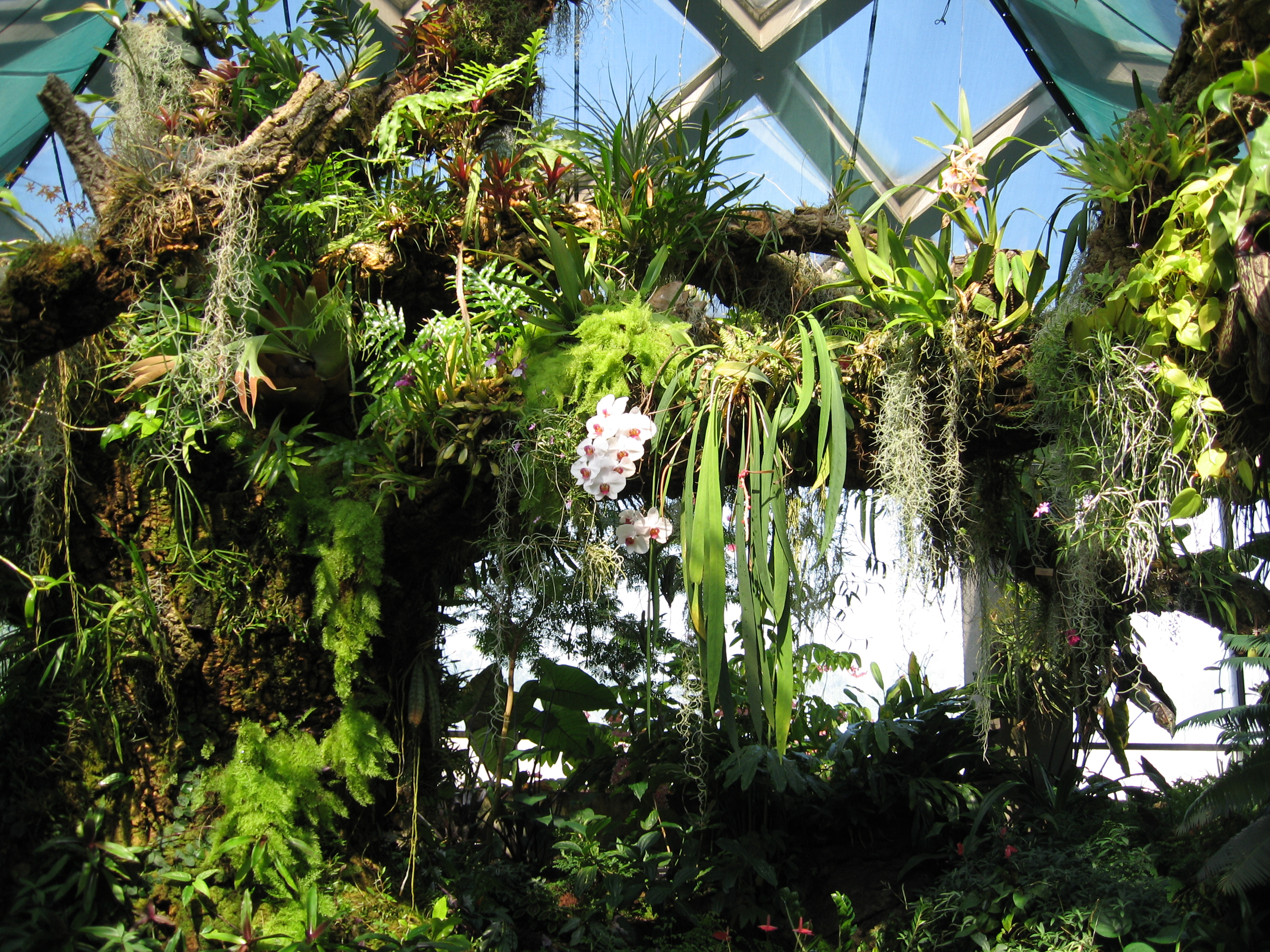 Orchid area, called the "Cloud Forest Tree", of Boettcher Conservatory at Denver Botanic Gardens.